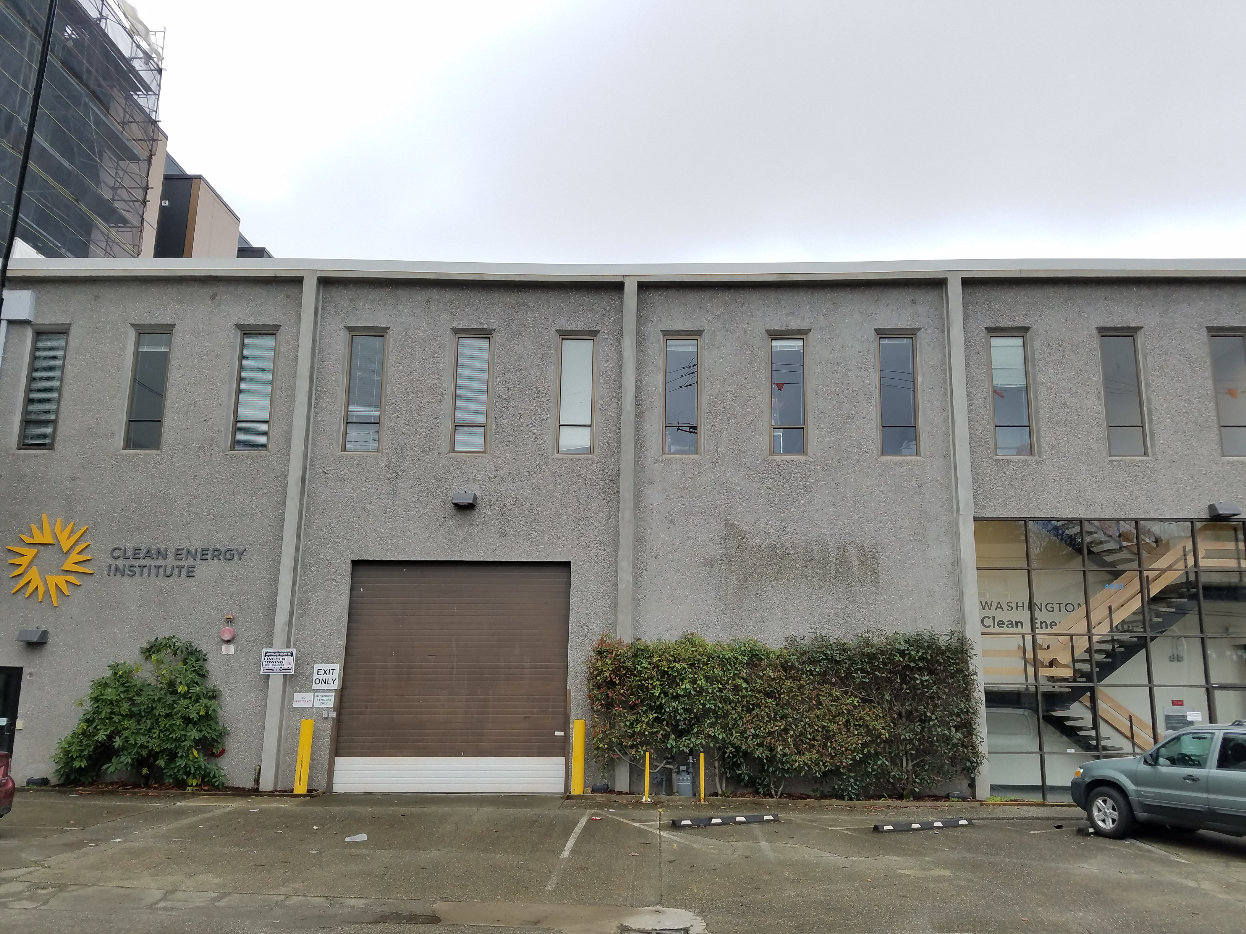 View of the warehouse that is home to the Washington Clean Energy Testbeds, a research facility that is part of the University of Washington's Clean Energy Institute in Seattle. Remnants of the sign for the building's former name (Bowman building) can be seen to the left of the stairwell entrance.